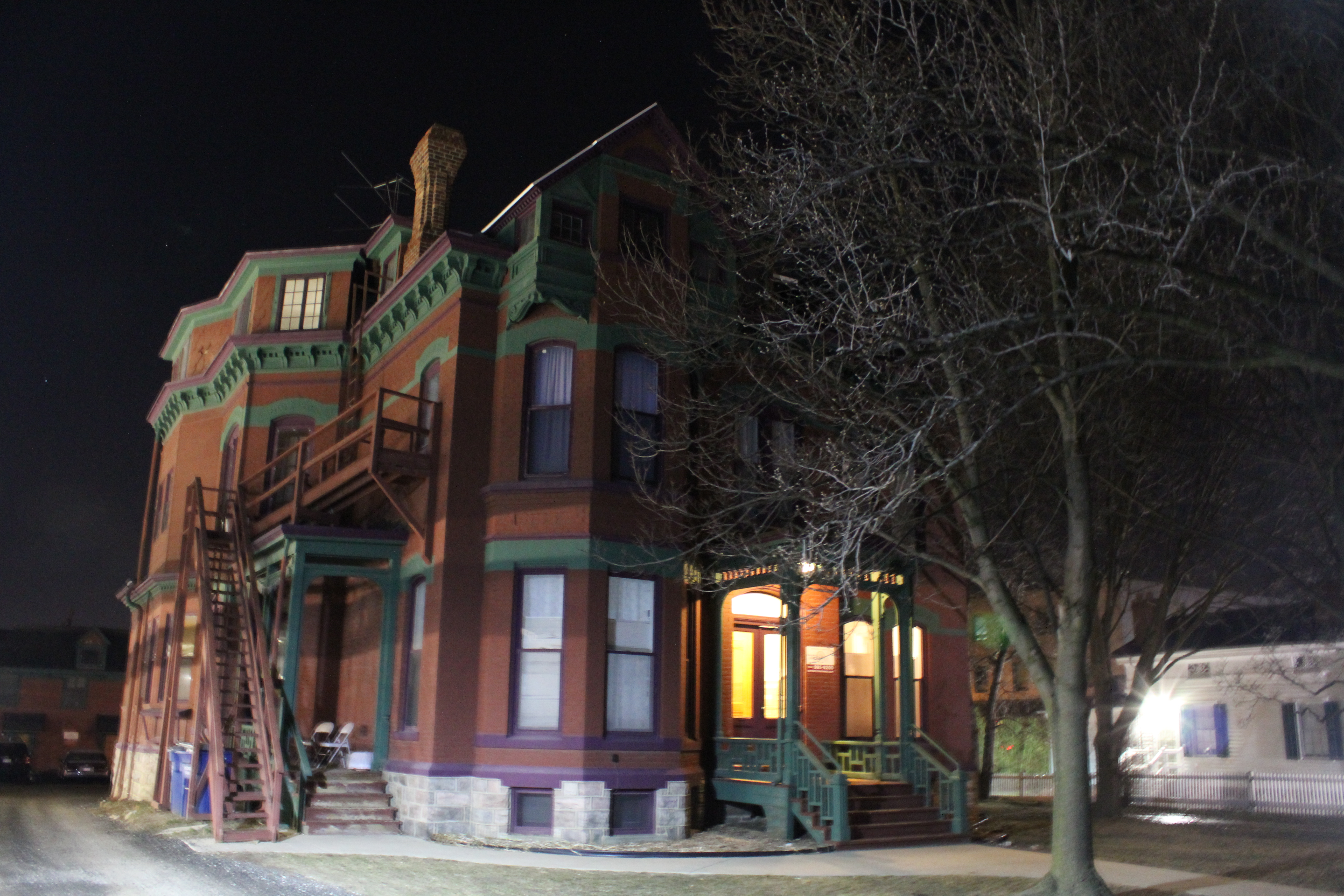 320 S. Division, Ann Arbor, Michigan. The building was constructed in 1882. built as a home for clothing merchant Adelbert L. Noble, in 1920 it was converted to a private hospital by Dr. David Murray Cowie who lead the movement to introduce iodized salt to America.